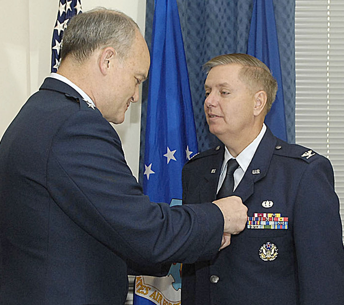 Lt. Gen. Jack L. Rives, Air Force judge advocate general, pins the Meritorious Service Medal on Col. Lindsey Graham in a Pentagon ceremony April 28, 2009. In addition to being a U.S. senator from South Carolina, Colonel Graham is an individual mobilization augmentee and the senior instructor at the Air Force JAG School at Maxwell Air Force Base, Ala